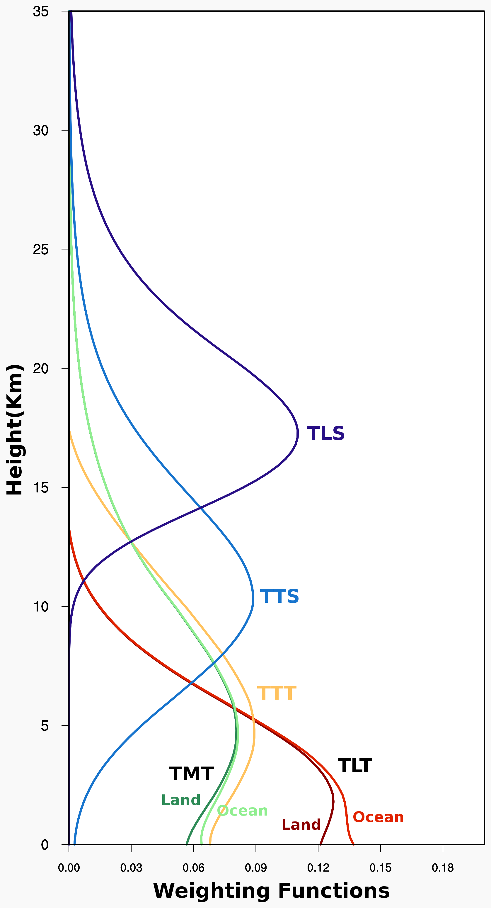 MSU channels weighting function for the standard US atmosphere. Data source:ftp://ftp.ssmi.com/msu/weighting_functions Description from RSS:ftp://ftp.ssmi.com/msu/weighting_functions/weighting_function_tlt_tmt_tts_tls_read_me.txt